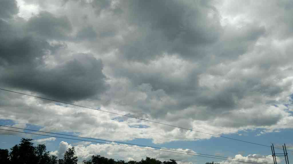 Peace